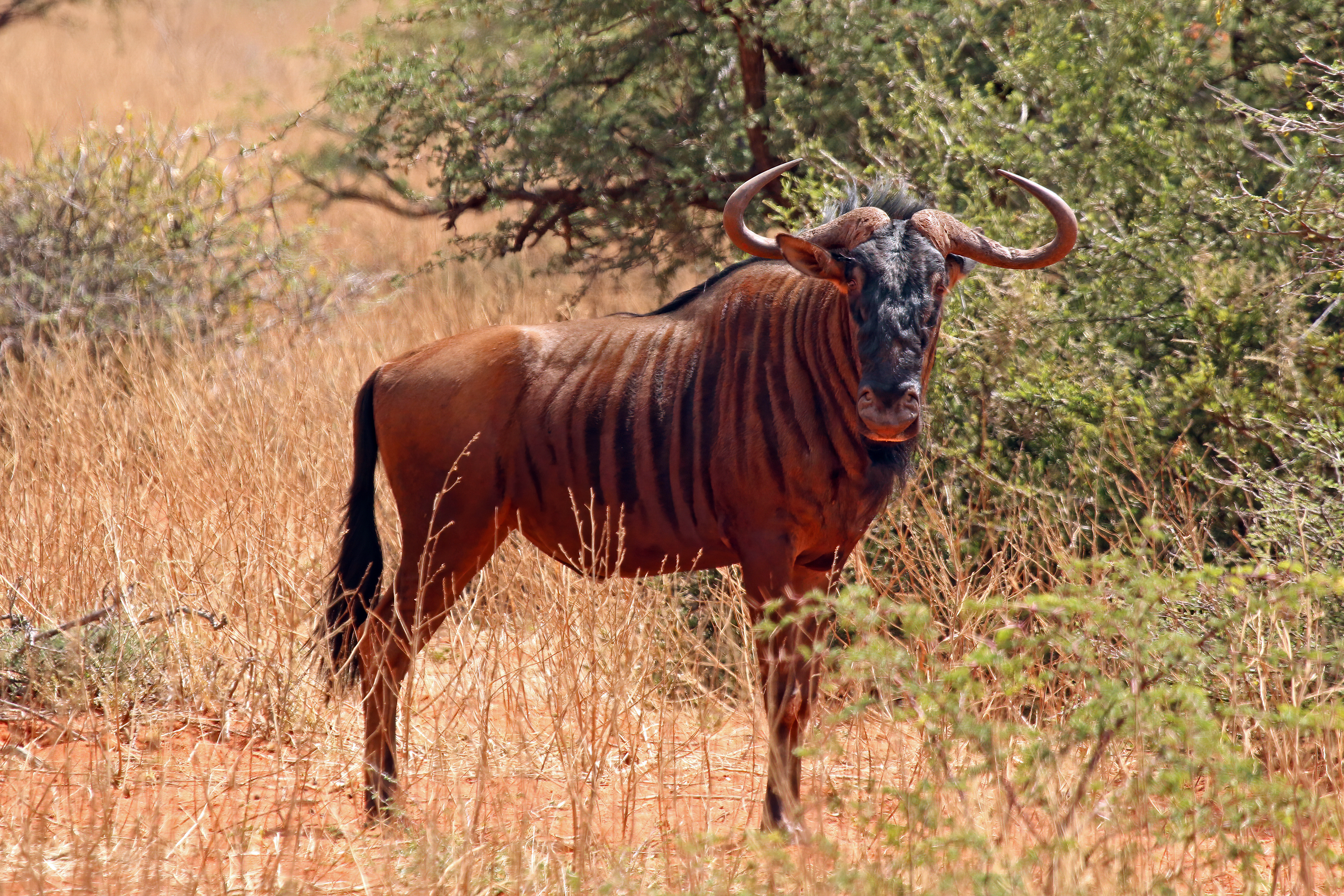 Blue wildebeest (Connochaetes taurinus taurinus) young male 1-2 months old, Tswalu Kalahari Reserve, South Africa